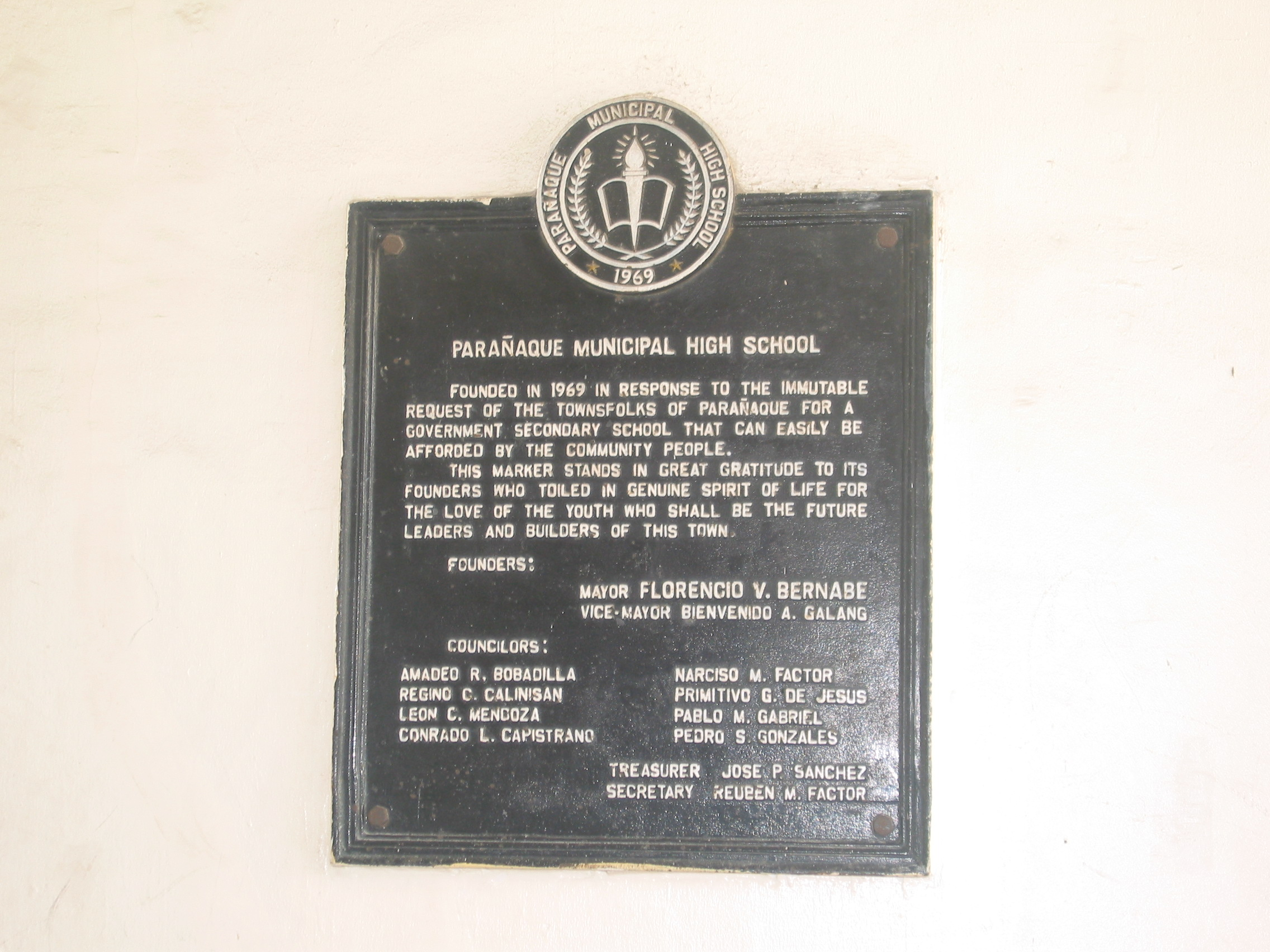 Marker